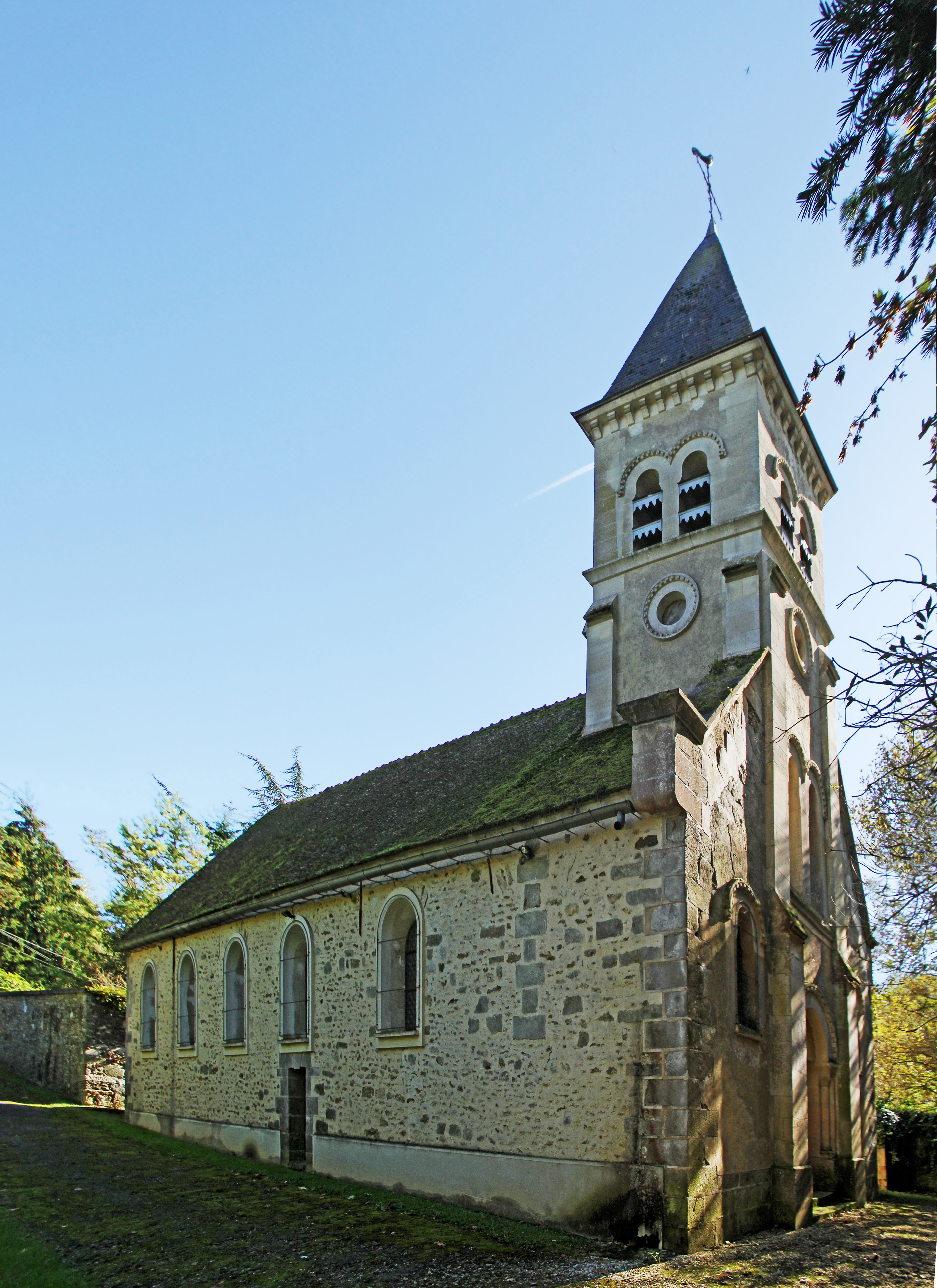 Église Notre-Dame-de-la-Nativité de Bréau